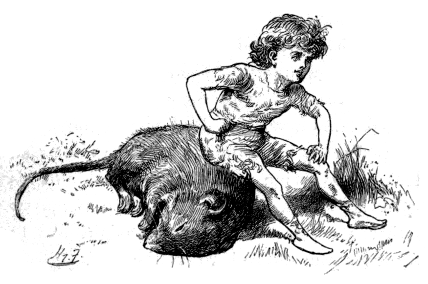 Illustration by Harry Furniss in Sylvie and Bruno